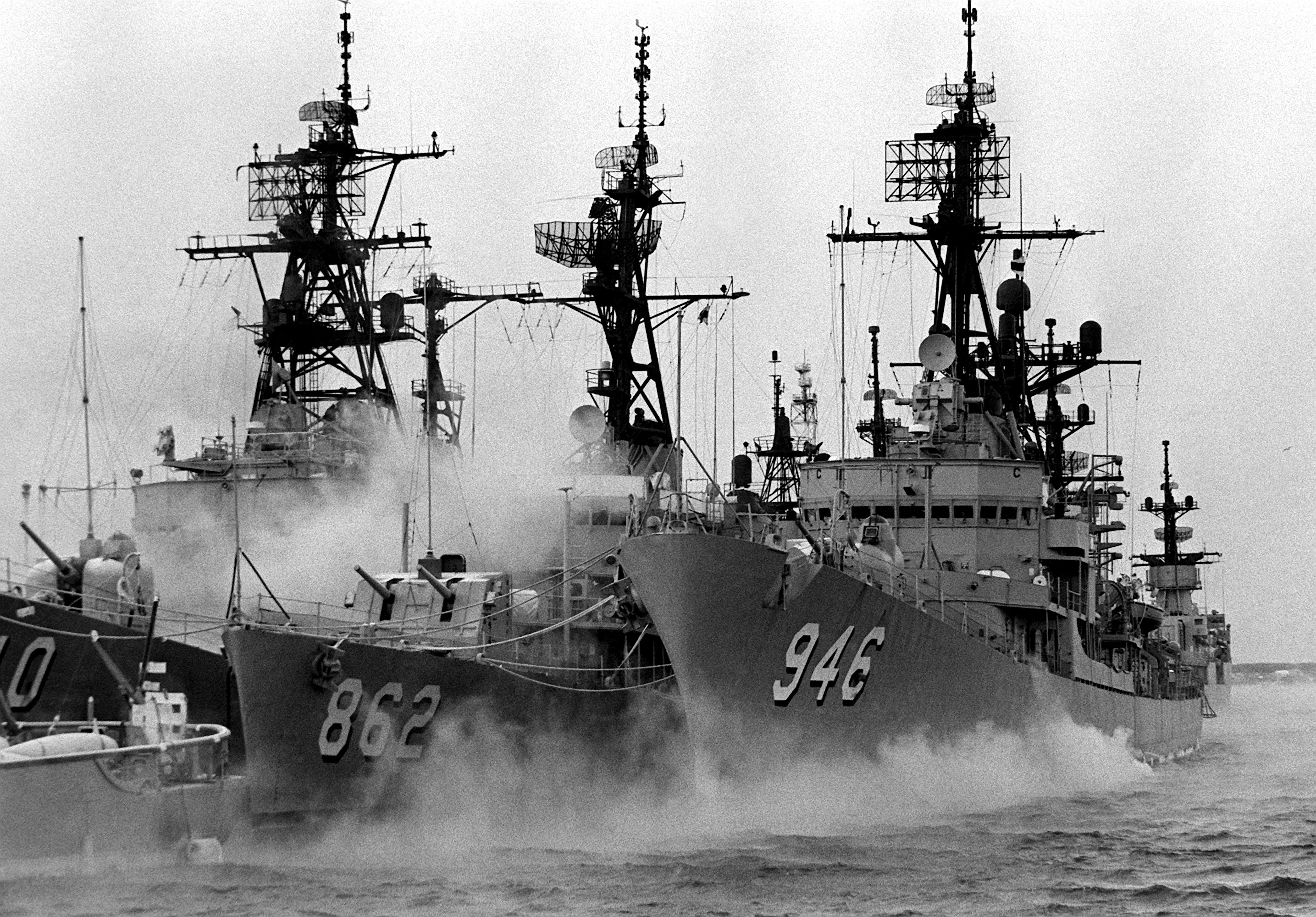 The U.S. Navy destroyers USS Manley (DD-940), USS Vogelgesang (DD-862) and USS Edson (DD-946) at Newport Rhode Island (USA), circa in 1982. Note: the date given "1 April 1982" is probably not correct as Vogelgesang was sold to Mexico on 24 February 1982.